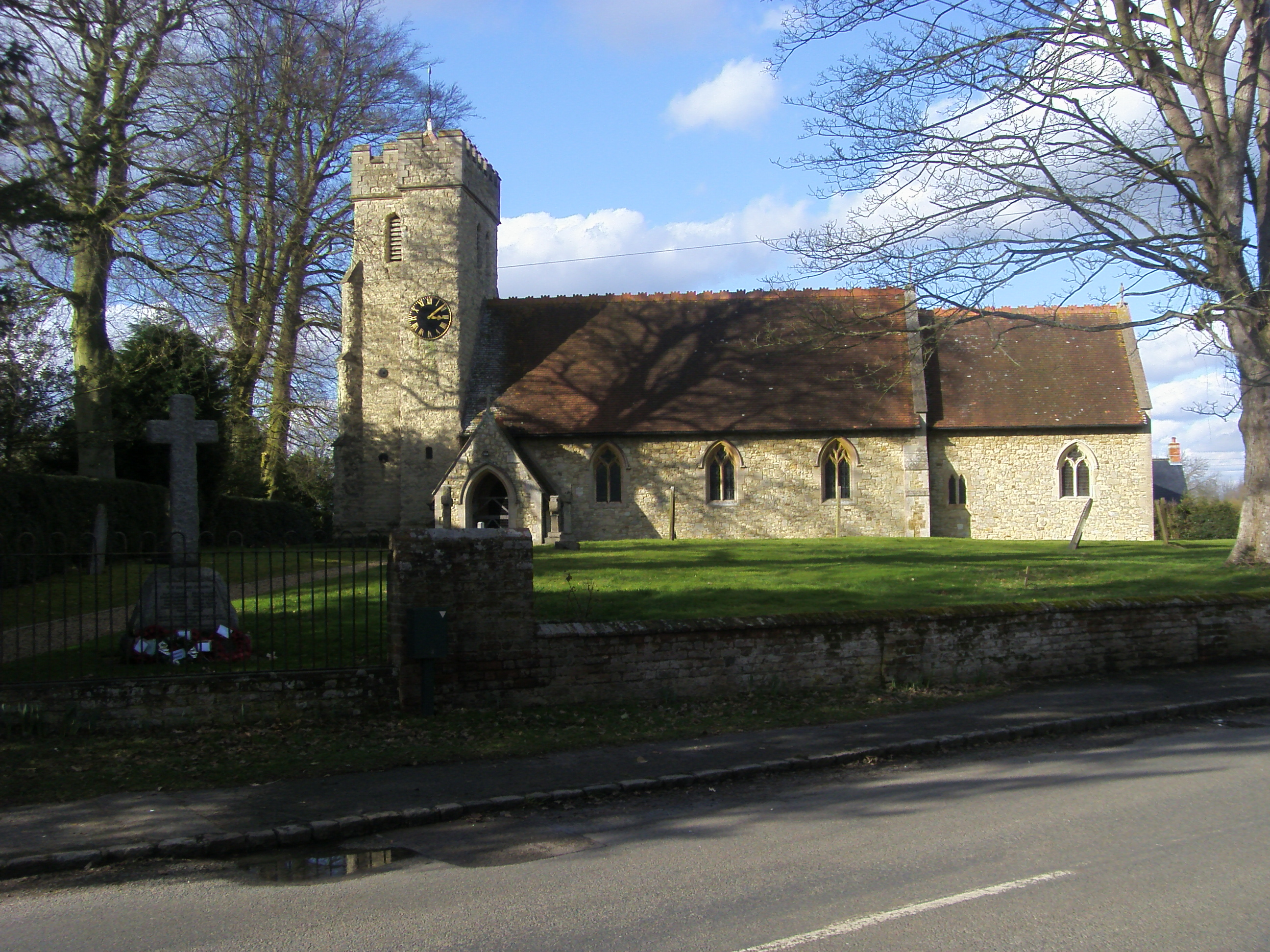 Church of St James the Great Aston Abbotts Church of St James the Great Aston Abbotts with the war memorial by Cublington Road